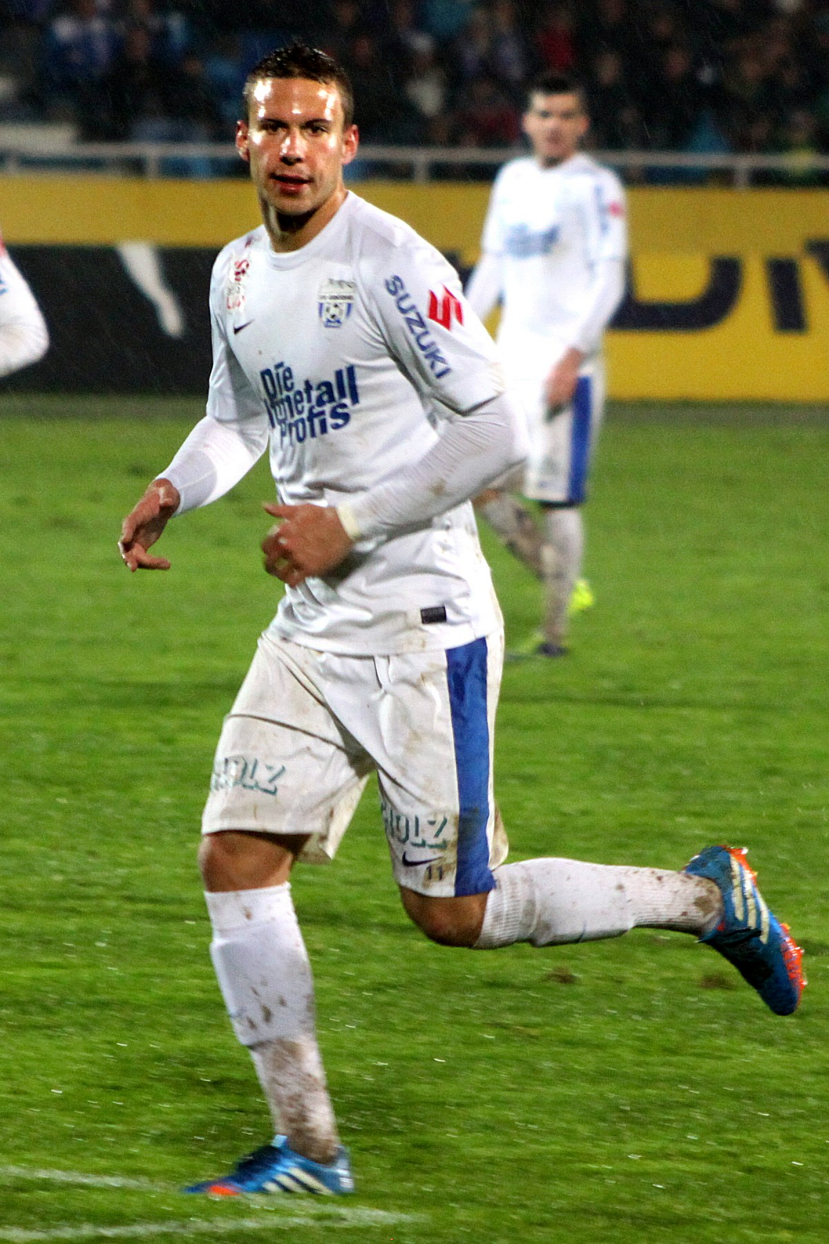 Austrian Football Bundesliga: SC Wiener Neustadt vs. SV Grödig (0:2) at 2013-11-23 in the Stadion Wiener Neustadt. – The photo shows Peter Tschernegg (SV Grödig).